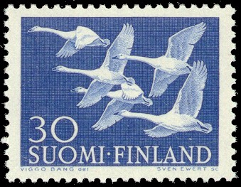 Postage stamp depicting the Finnish national bird, Whooper Swan